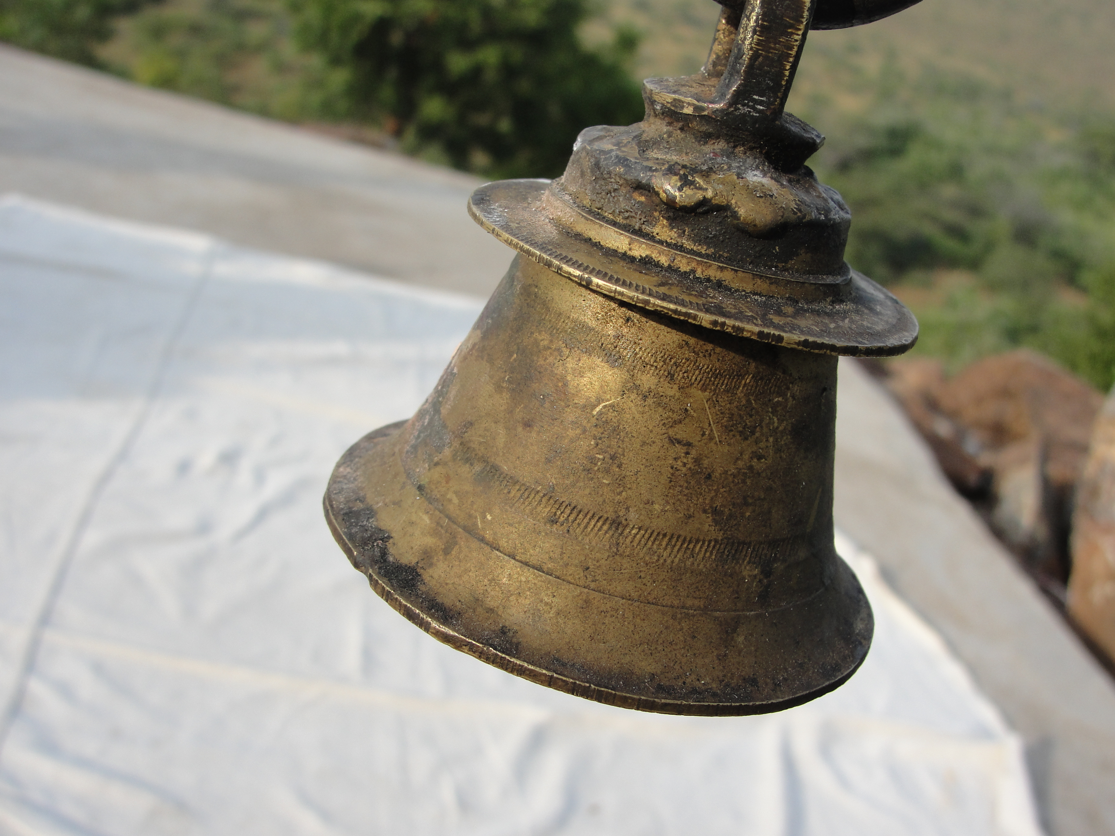 A temple bell in Kanjamalai Sivan Temple